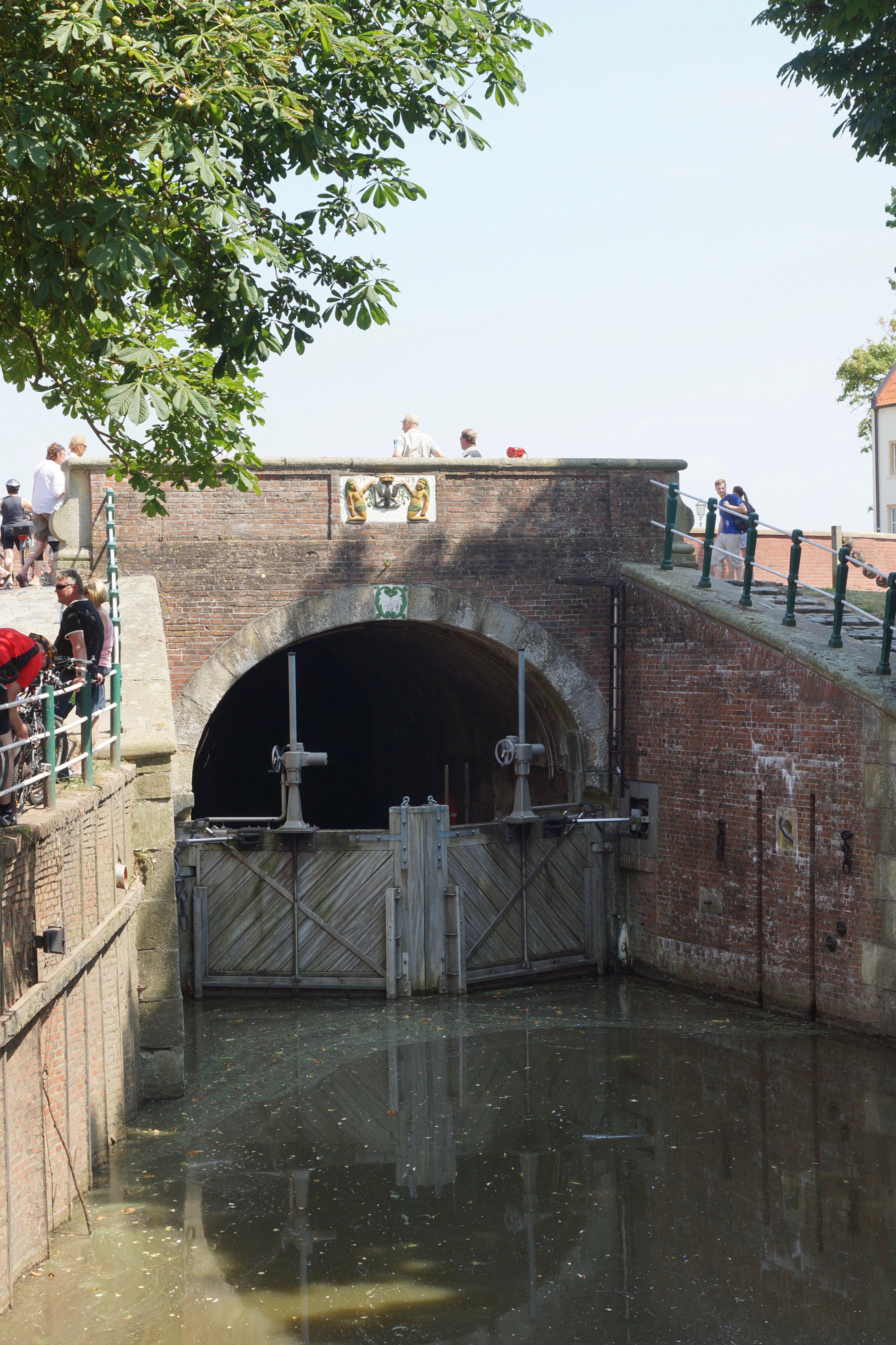 Krummhörn (Greetsiel), Germany: The sluse